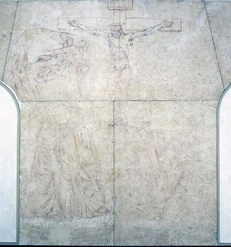 ANDREA DEL CASTAGNO Stories of Christ's Passion Fresco, Sant'Apollonia, Florence